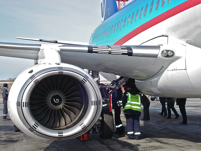 Sukhoi Super Jet 100 engine